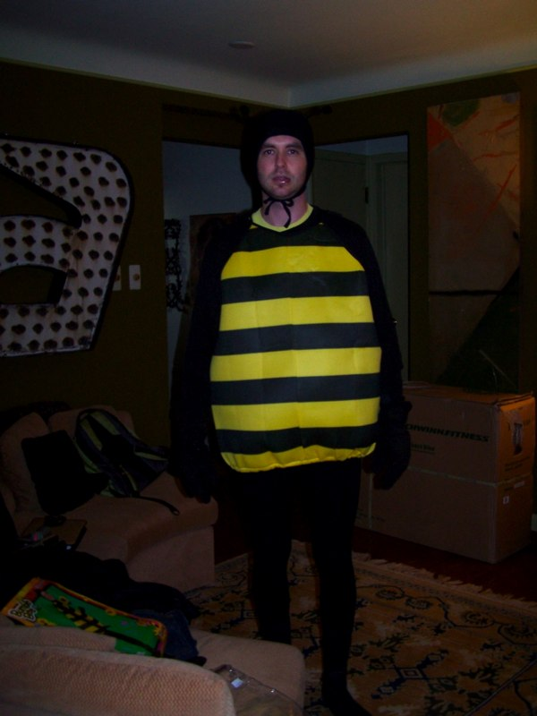 Beau McCarthy, The Insyderz Ministries